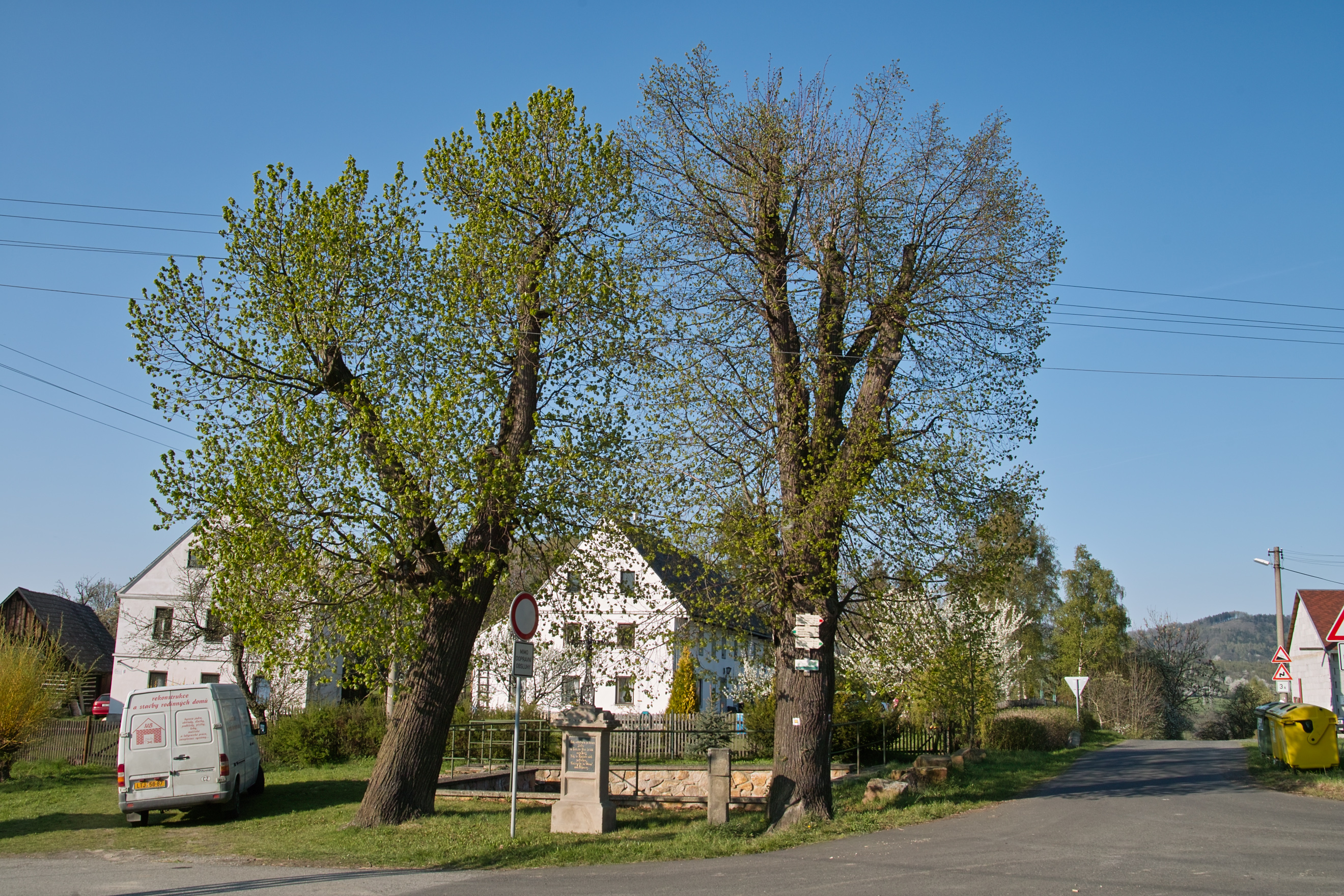 lime-trees, Proboštov near Malečov, Czech Republic